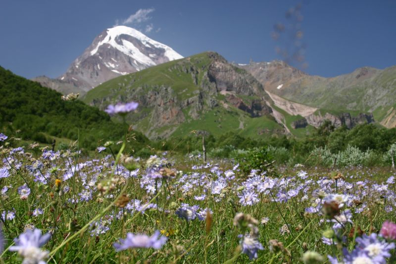 Flowers in Kazbegi.